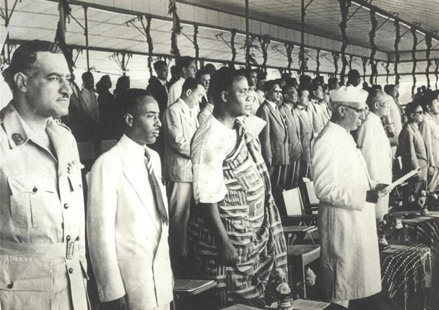 Asian–African Conference at Bandung April 1955